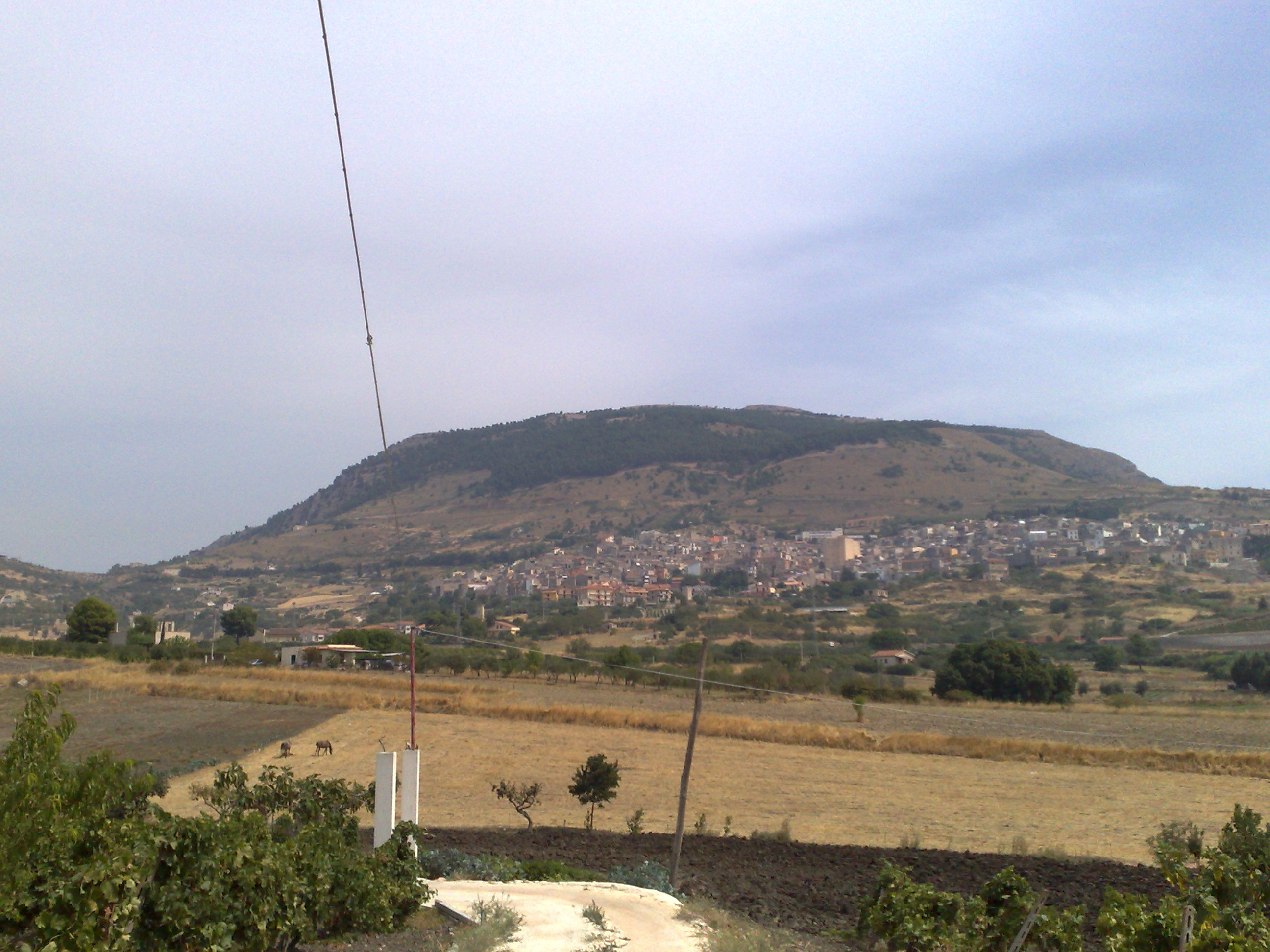 Bisacquino (Palermo) landscape